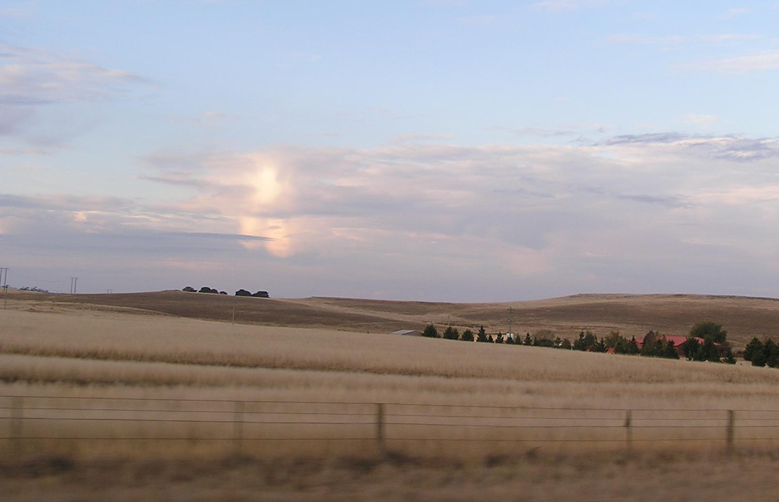 Monaro near Cooma (April 2005)